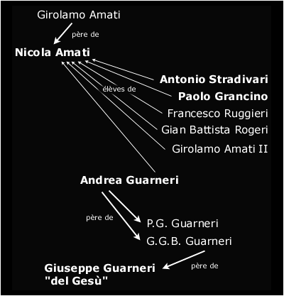 Tree of Luthiers